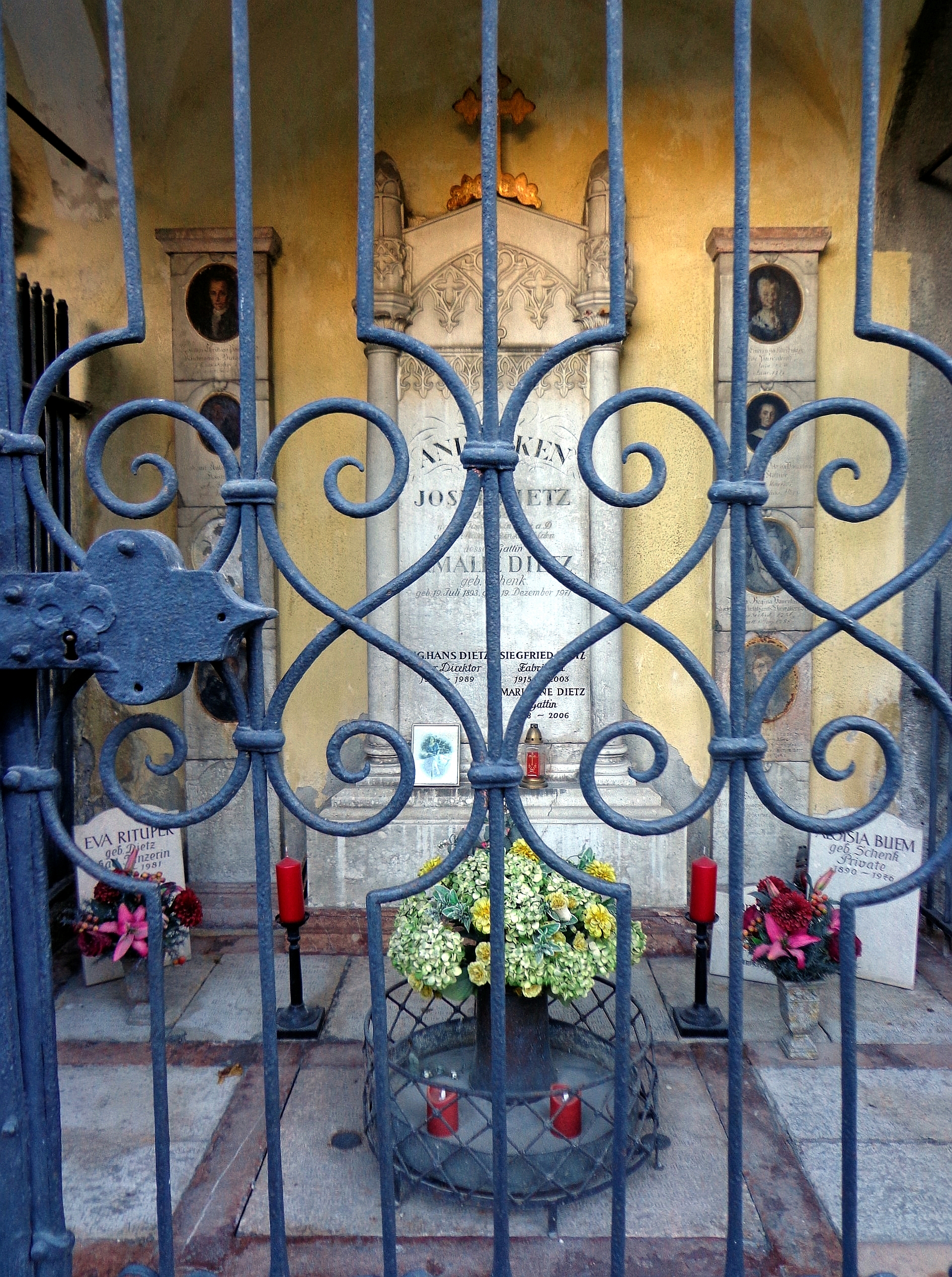 Crypt 50 (Petersfriedhof Salzburg): used by the Dietz and Paurnfeind families